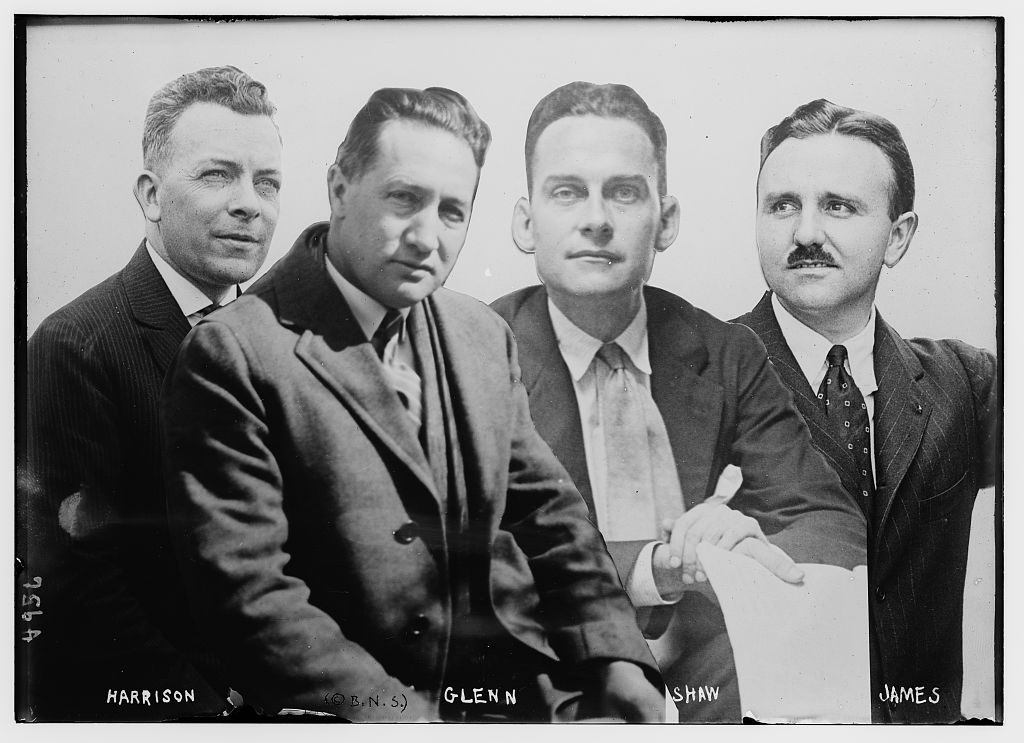 Harrison, Glenn, Shaw, James as The Shannon Four circa 1918